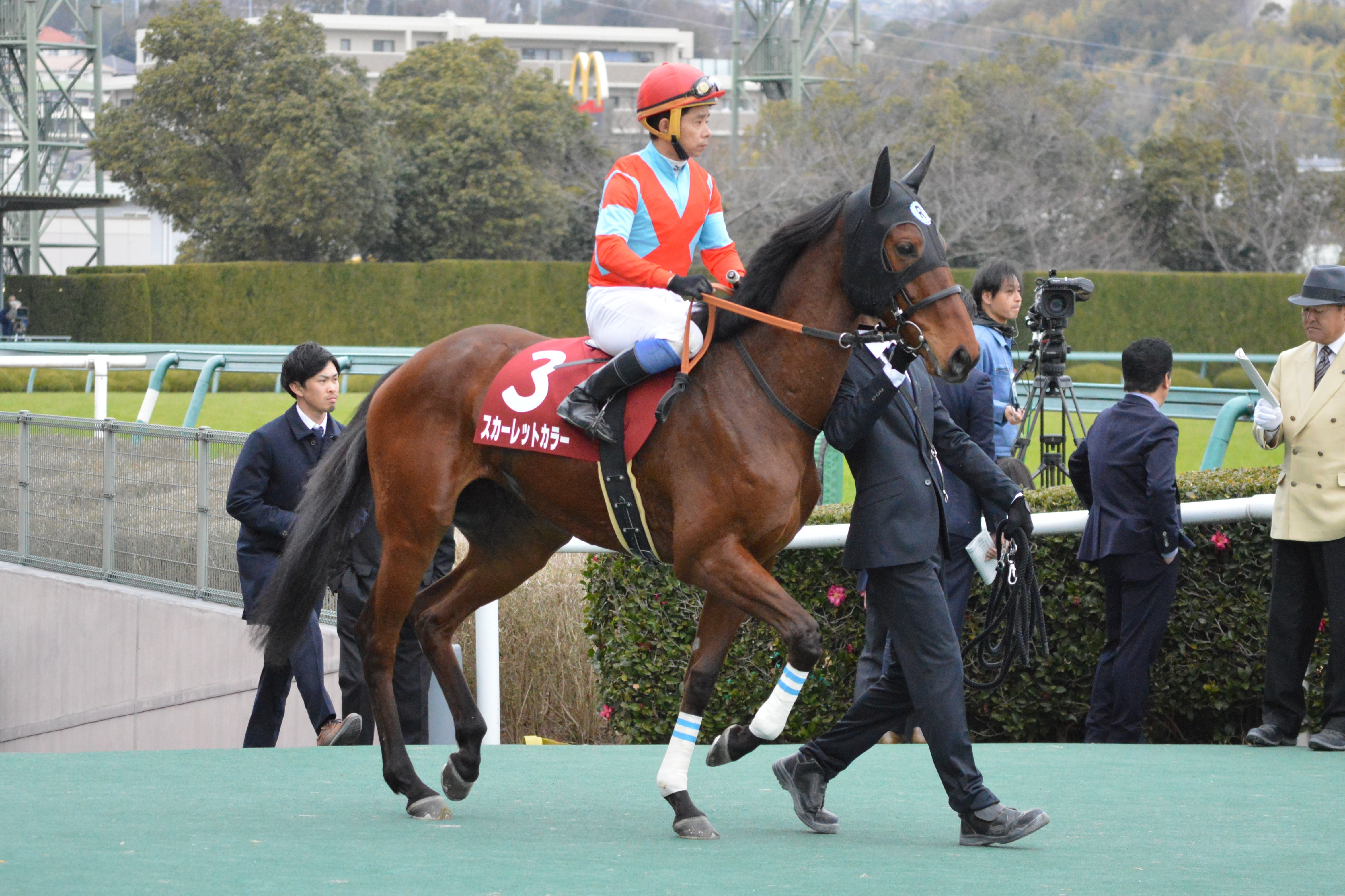 Japanese race horse Scarlet Color at Hanshin racecourse.